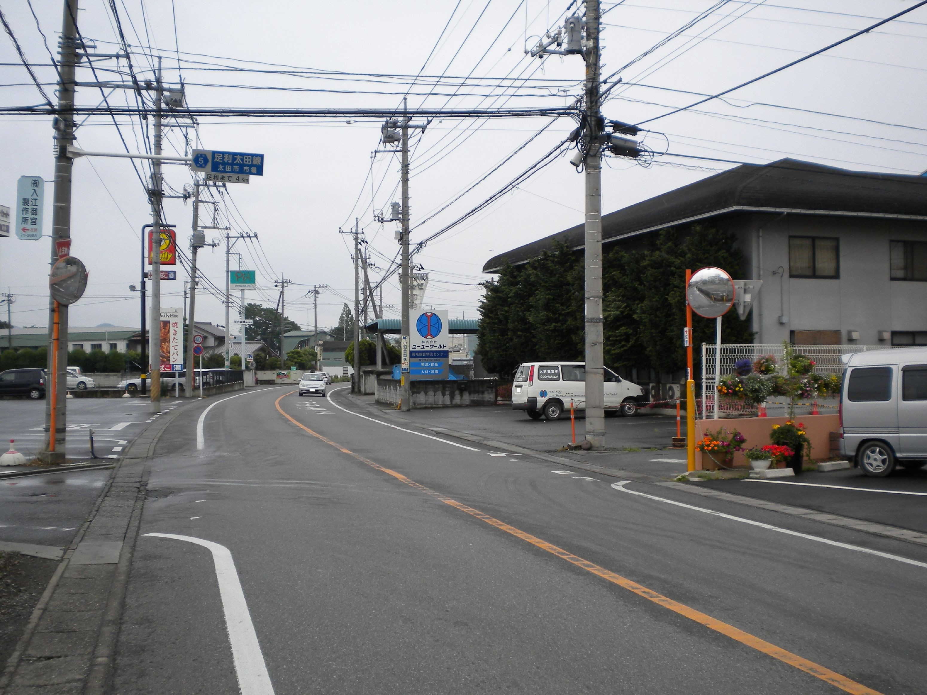 The Gunma Prefectural Road Route 5 in Takazecho, Ota City